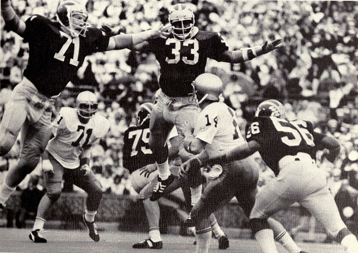 Photograph of Dave Gallagher (No. 71) and Carl Russ (No. 33) looming over an opposing quarterback